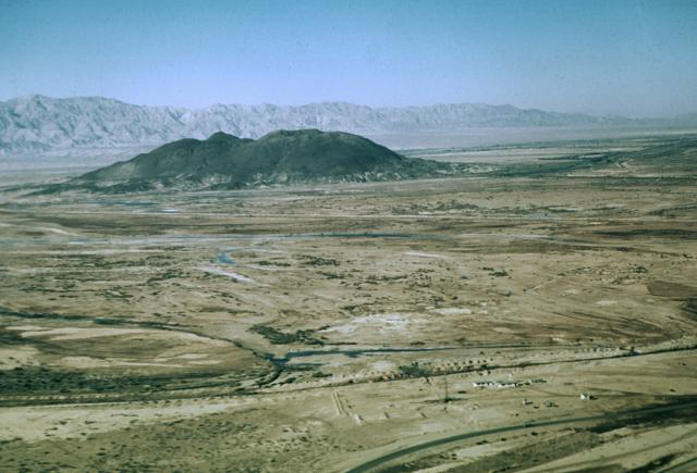 Cerro Prieto ("Dark Hill") is a small, 223-m-high compound rhyodacitic lava dome in México.